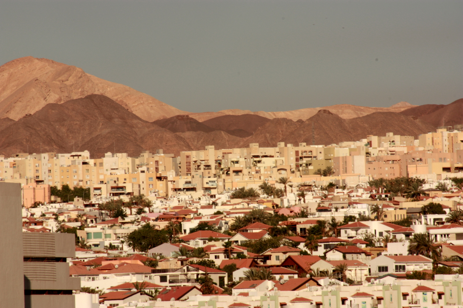 Eilat, Cities in Israel